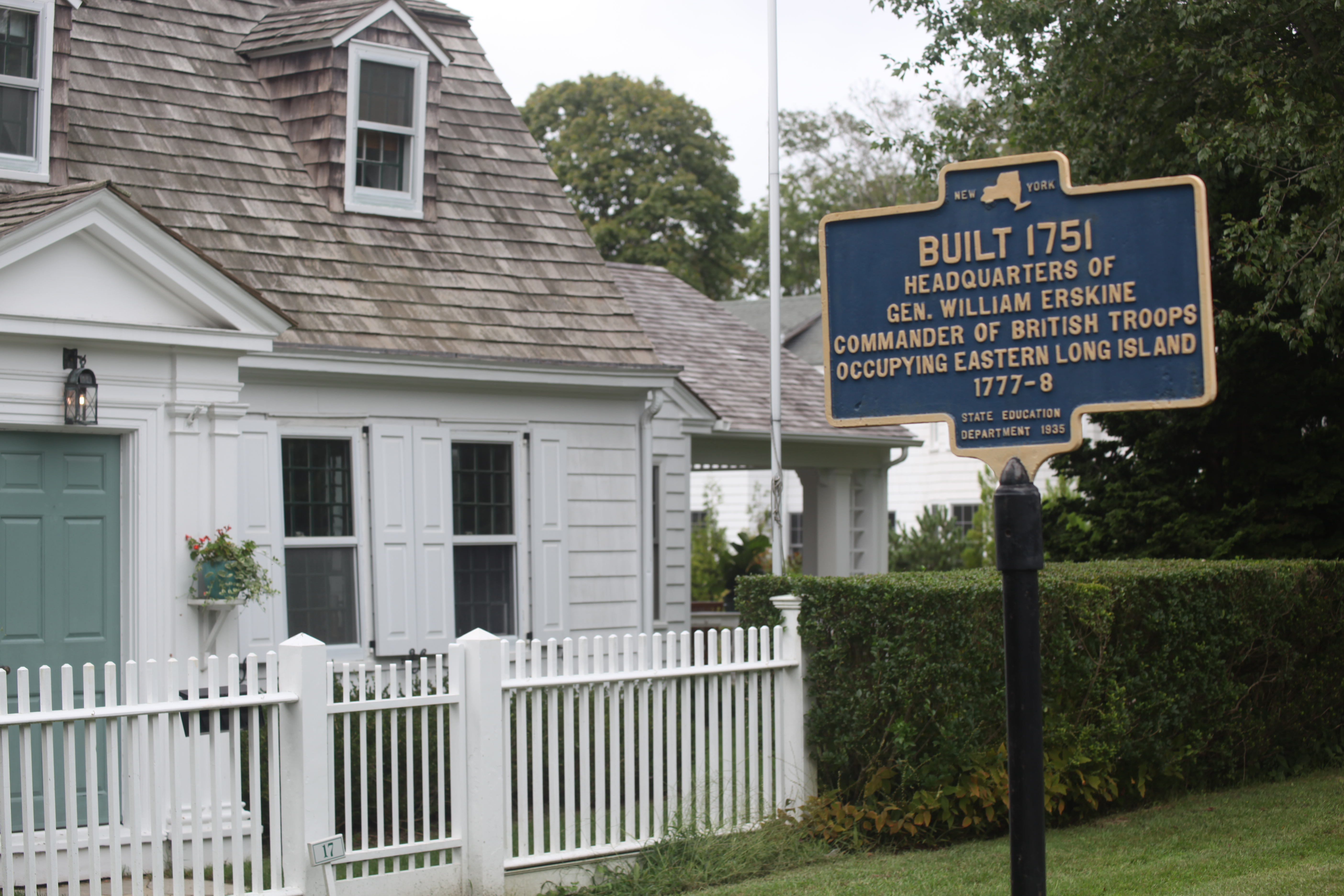 Erskine House, Southampton NY Commander of the British troops occupying Long Island during the war for independence 1777-78